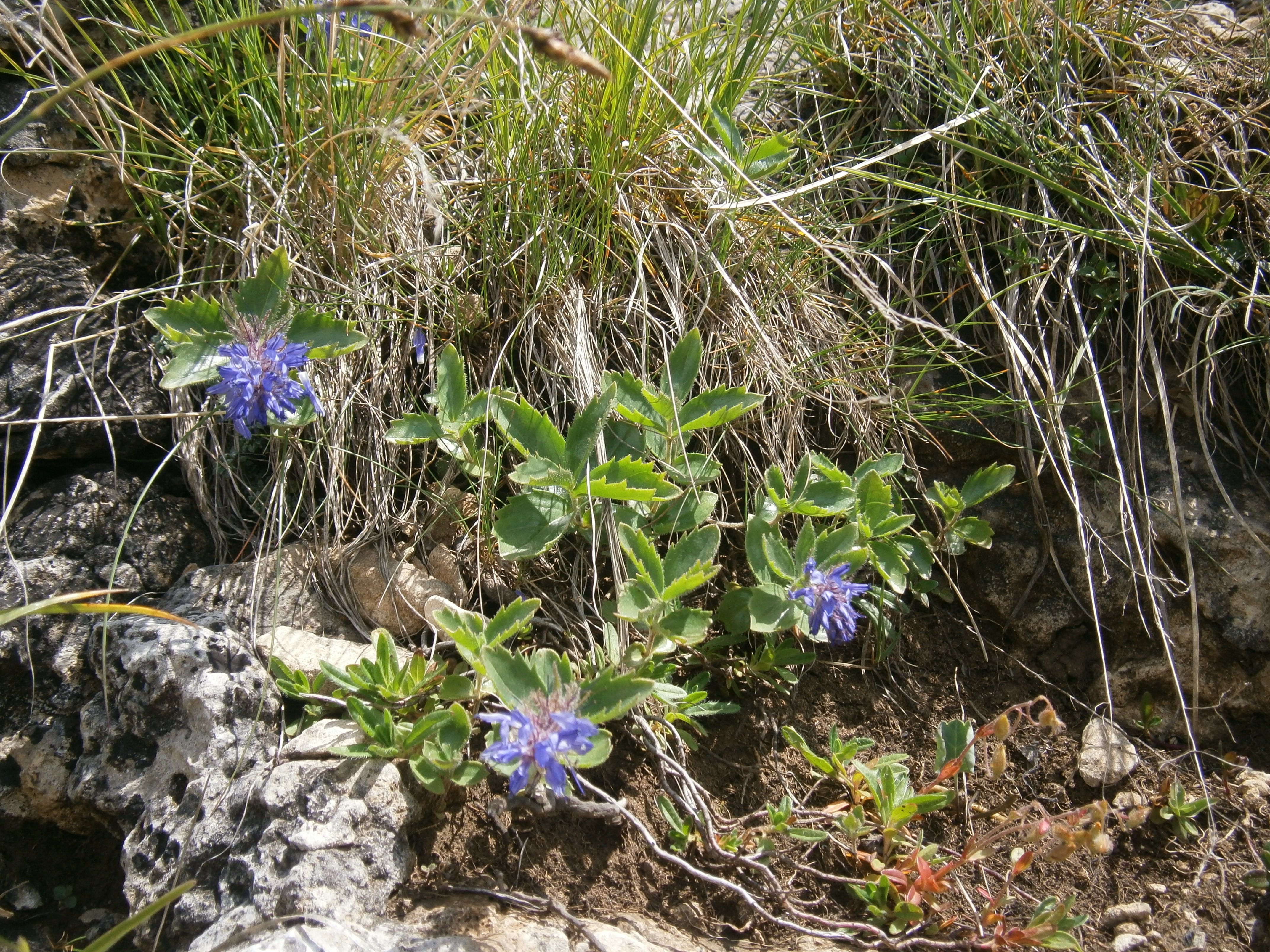 Paederota bonarota